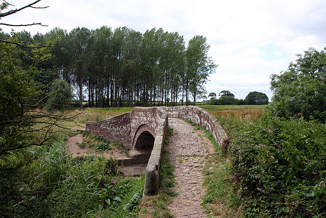 One of the packhorse bridges carrying Platts Lane over the River Gowy at Hockenhull Platts, Cotton Edmunds, Cheshire